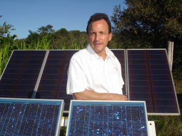 IDEAAS_FOUNDER AND EXECUTIVE DIRECTOR